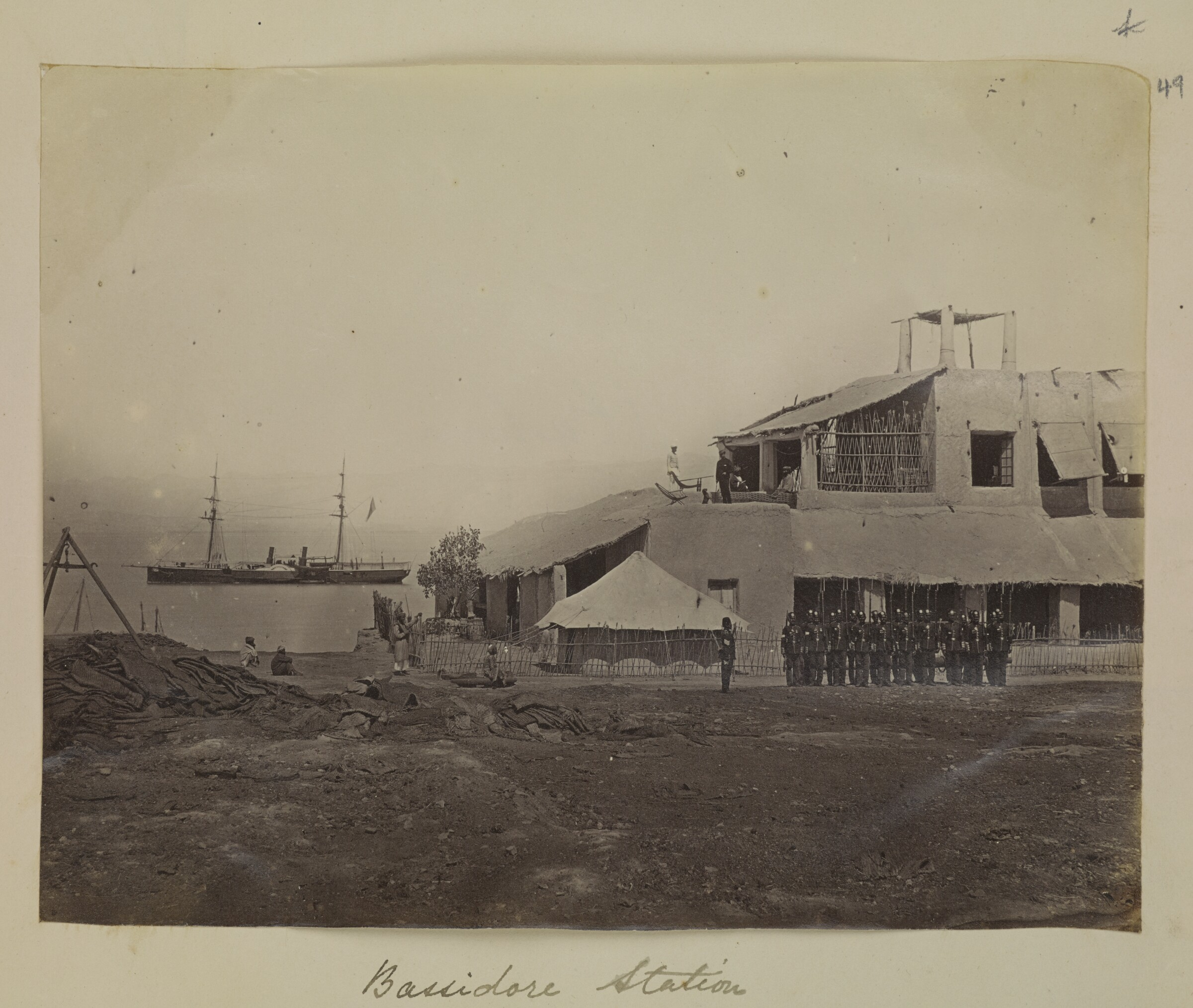 Scene showing a settlement and Indian troops on parade at Bassidore (Basaidu) Station on the western extremity of Qeshm (Kishm) Island. The mud and reed-built two-storey building behind the troops is surrounded by a fence. To the left of the image in the middle-ground hessian or jute sacks are piled in a large heap. A number of figures, aside from the troops on parade are visible seated on the ground near the sacks as well as on the terrace of the building. In the background a paddle steamer is visible at anchor in the bay beyond.